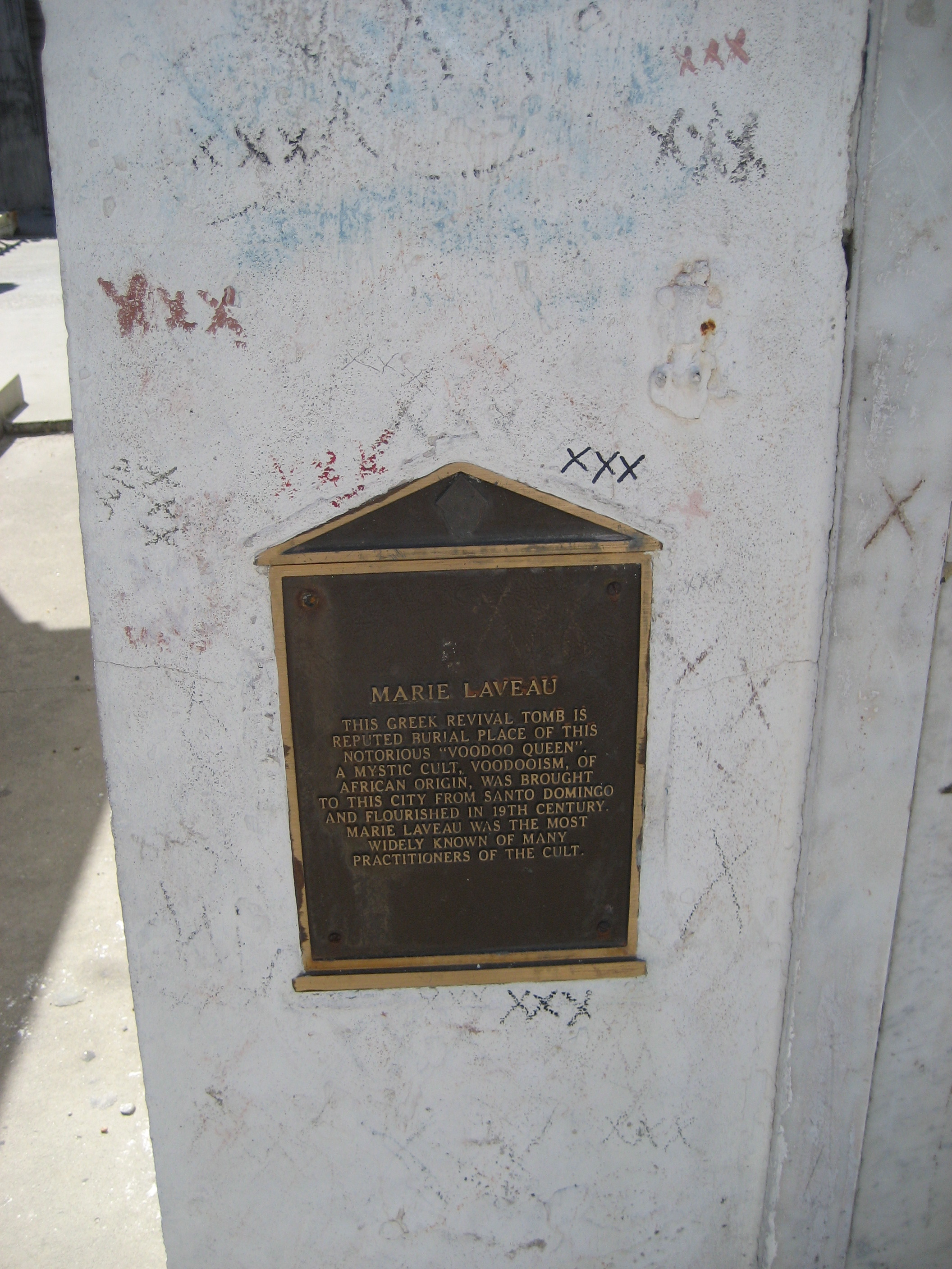 St. Louis Cemetery #1, New Orleans. Tomb of Voodoo Queen Marie Laveau. Visitors with certain beliefs make "X"s on the tomb in the belief that this will give them supernatural help, despite that this is discouraged by the keepers of the historic cemetery.